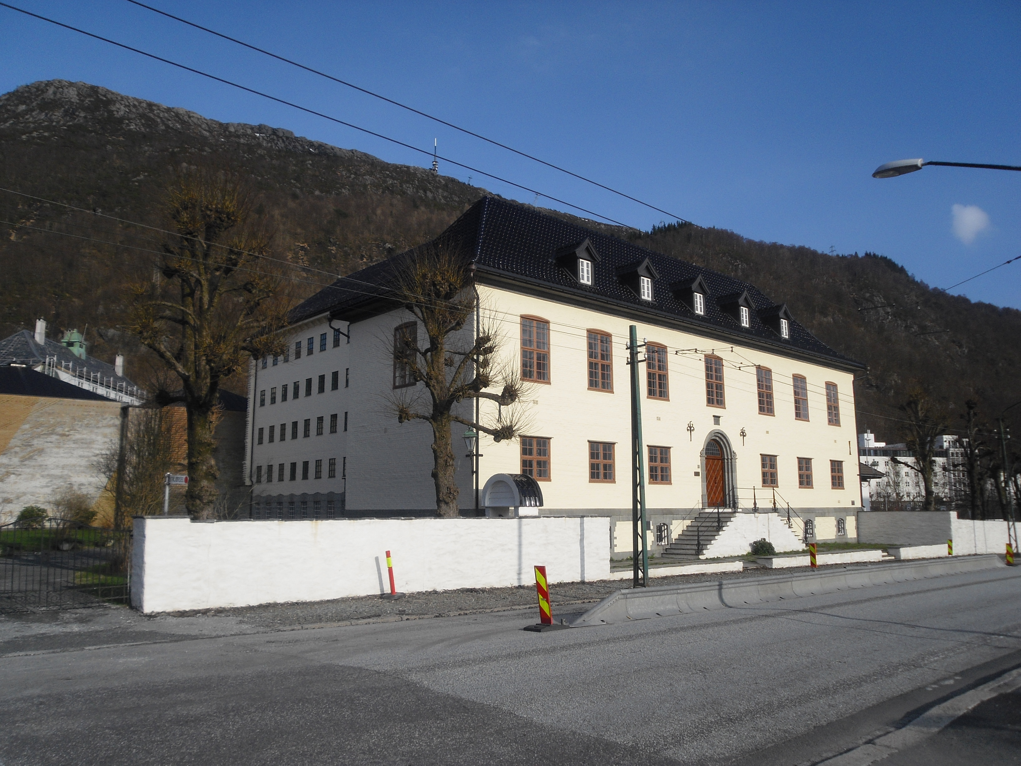 Statsarkivet in Bergen, Norway